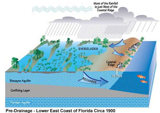 Pre-Drainage Lower East Coast of Florida 1900